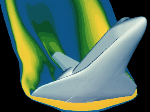 This Computational Fluid Dynamics (CFD) computer generated image shows a model of the space shuttle. CFD has taken the place of wind tunnels for many evaluations of aircraft and, as computing power increases and computer models become more sophisticated, CFD will largely replace wind tunnels.